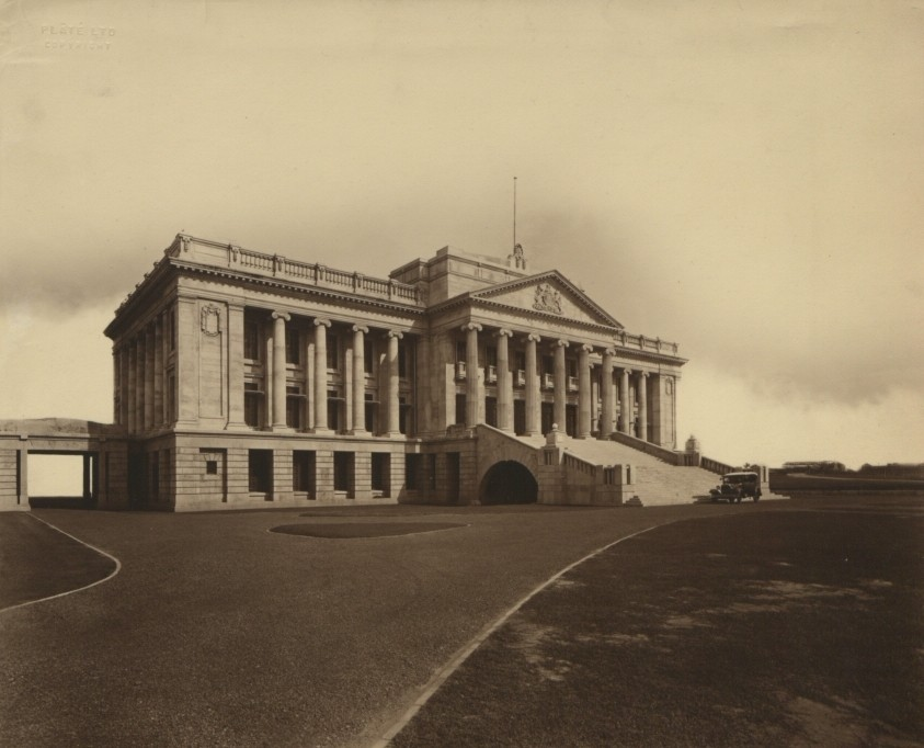 Photograph of Old Parliament Building Colombo